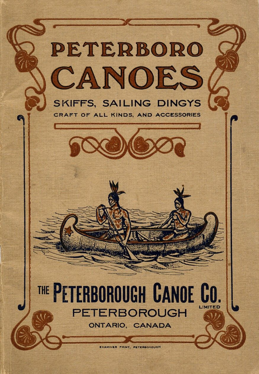 1909 Peterborough Canoe Company catalog cover